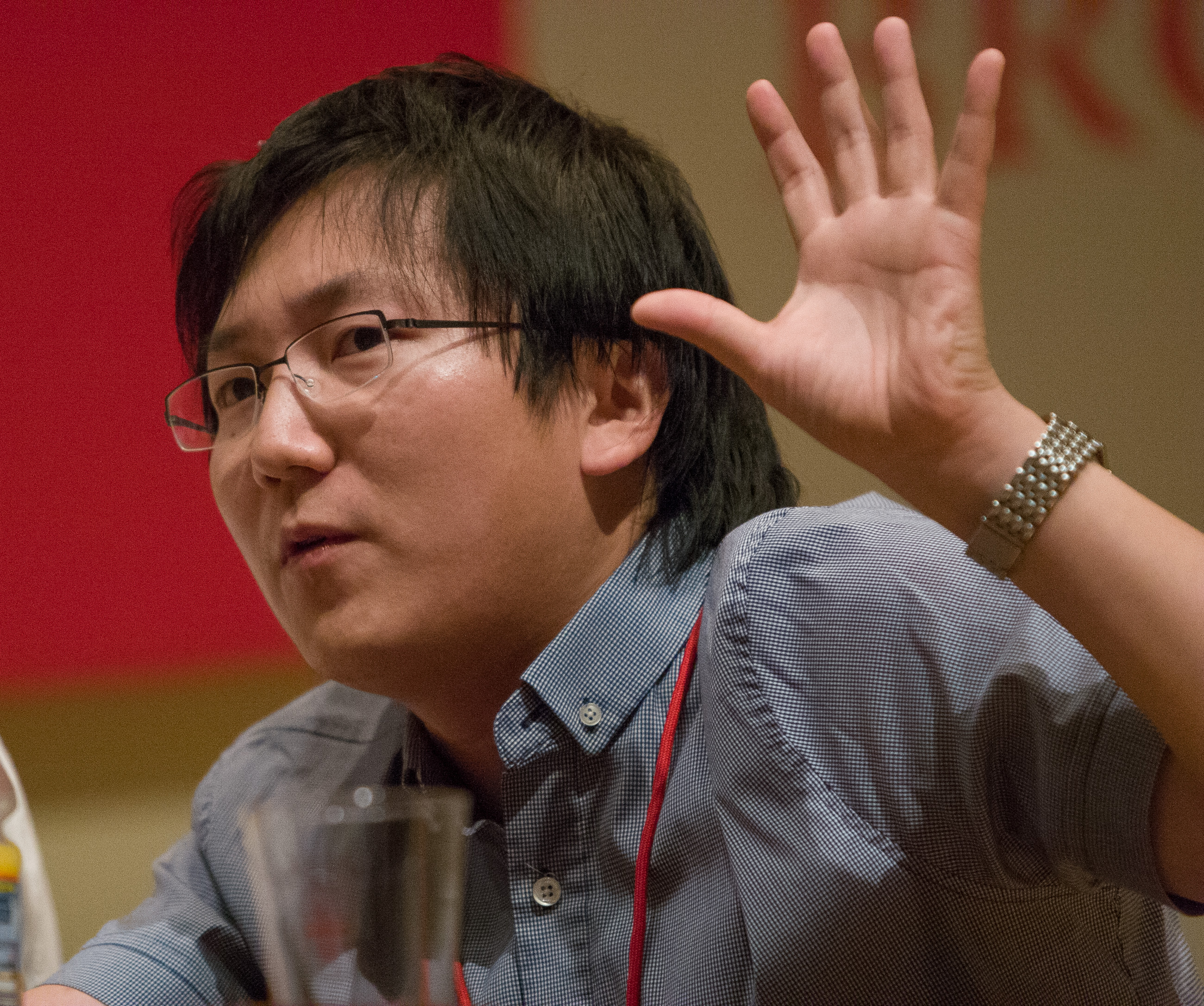 Masi Oka, Japanese-American Actor, 2007.